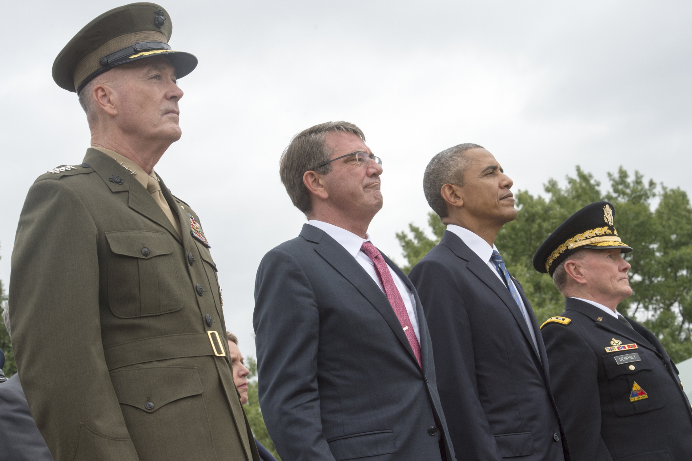 President Barack Obama, Defense Secretary Ash Carter and Marine Gen. Joseph F. Dunford Jr, the 19th chairman of the Joint Chiefs of Staff, at the change of responsibility ceremony with the 18th chairman of the Joint Chiefs of Staff Army Gen. Martin E. Dempsey, on Summerall Field, Joint Base Myer-Henderson Hall, Arlington, Va. Sept. 25, 2015 DOD photo by D. Myles Cullen (released)